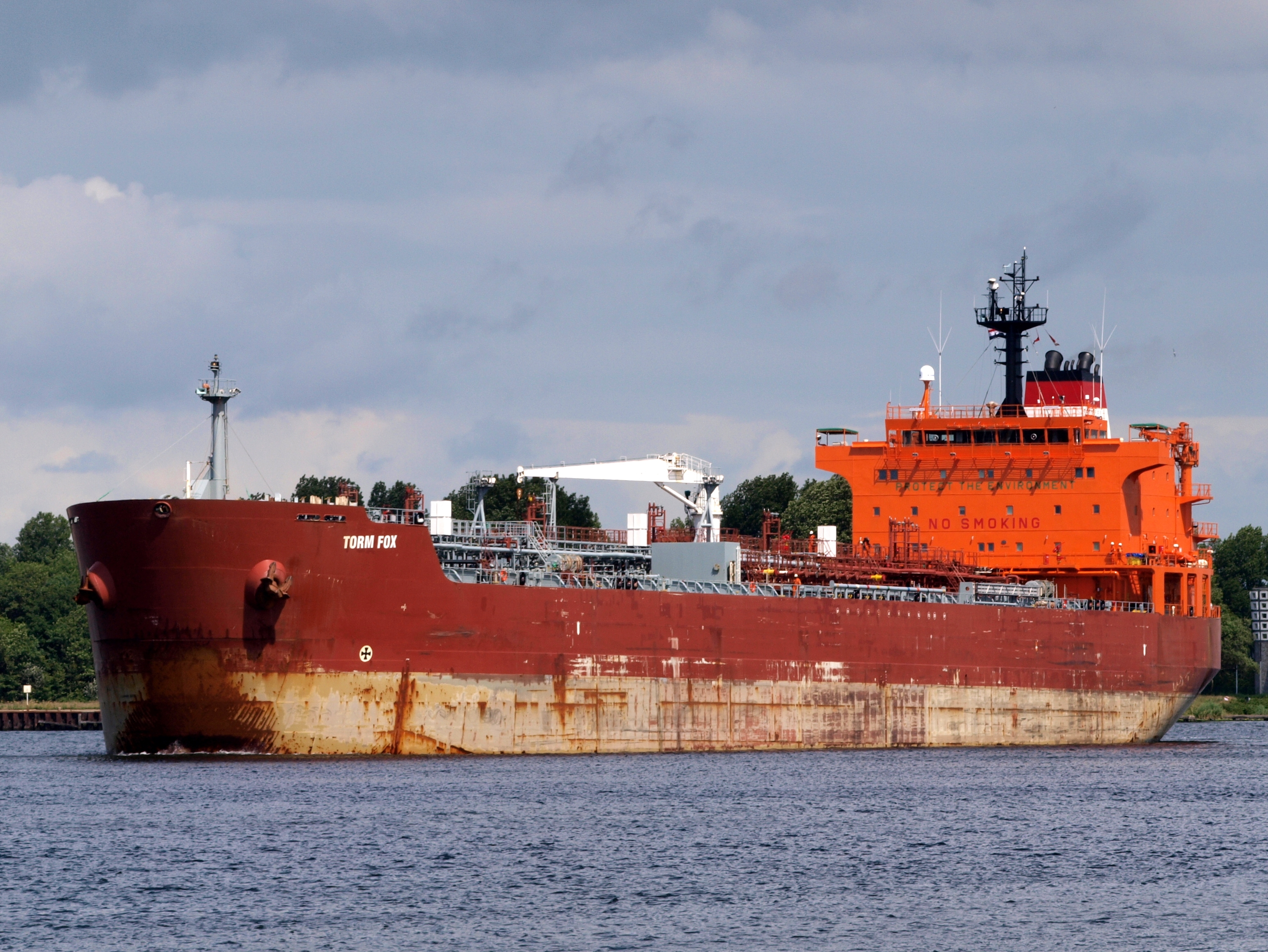 Photographed at Port of Amsterdam, The Netherlands